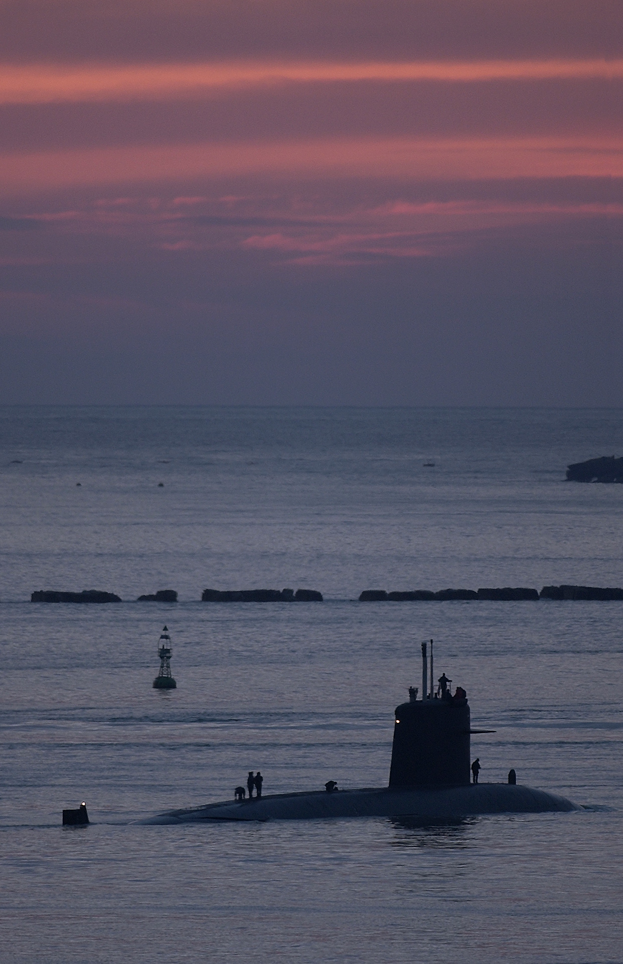 The SNA Emeraude submarine travels by Saint-Mandrier-sur-Mer in the early morning.